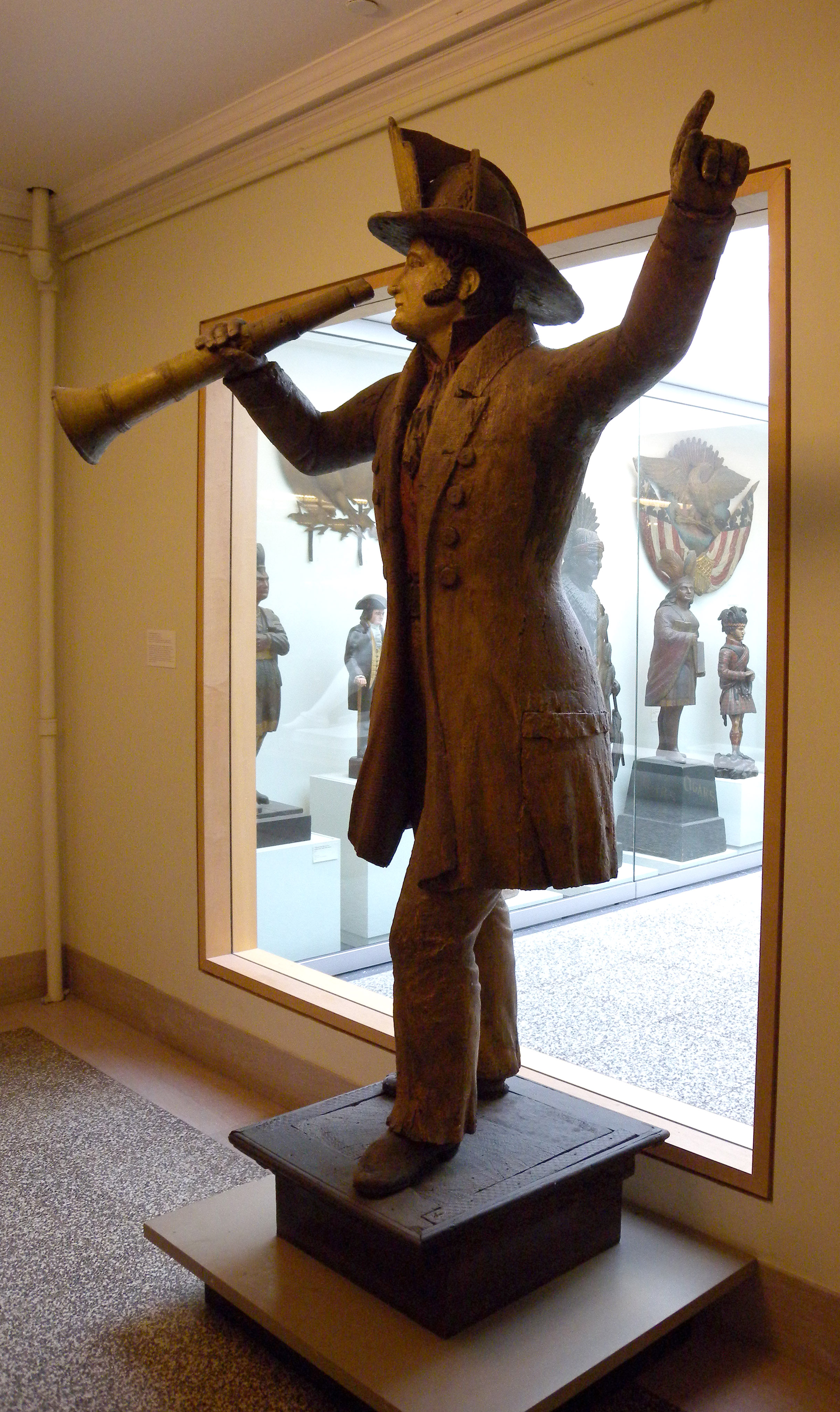 Wooden statue of Fire Chief Harry Howard, ca. 1857, from a fire station on Mercer Street, on display at the New-York Historical Society. See also Fire Chief Harry Howard label.